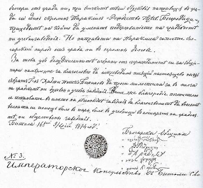 Letter from the Bitolya Bulgarian Municipality to the Russian Consulate in Bitolya 16 September 1874